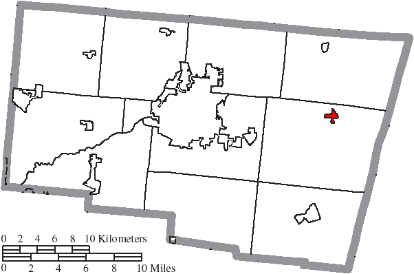 Map of the municipal and township boundaries of Clark County, Ohio, United States, as of the 2000 census, with the location of the village of South Vienna highlighted. Township borders are shown only in unincorporated areas in order to differentiate incorporated and unincorporated areas more clearly.